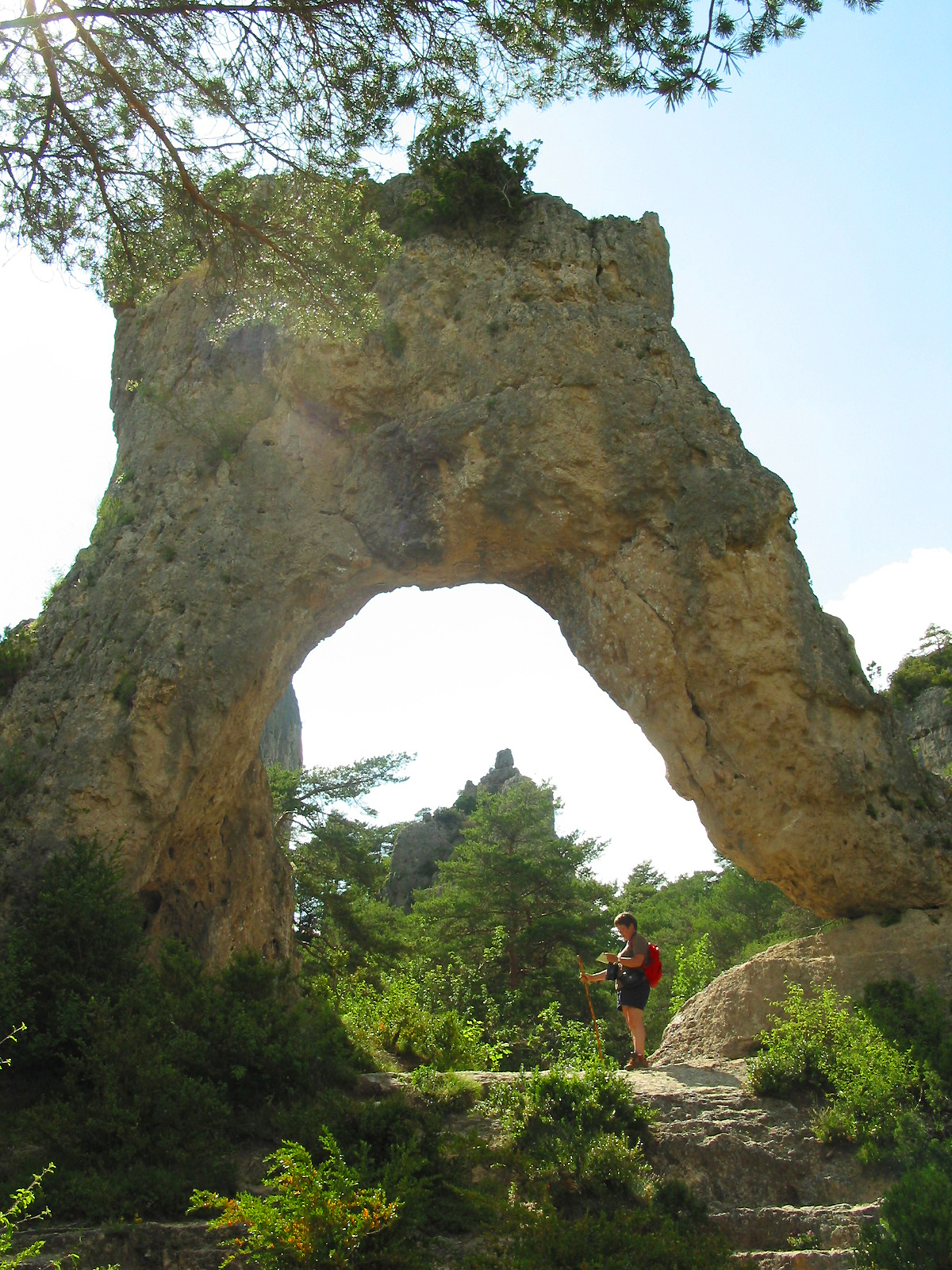 La Roque-Sainte-Marguerite (Aveyron - France), chaos de Montpellier-le-Vieux - La porte de Mycène (The Door of Mycenae) .